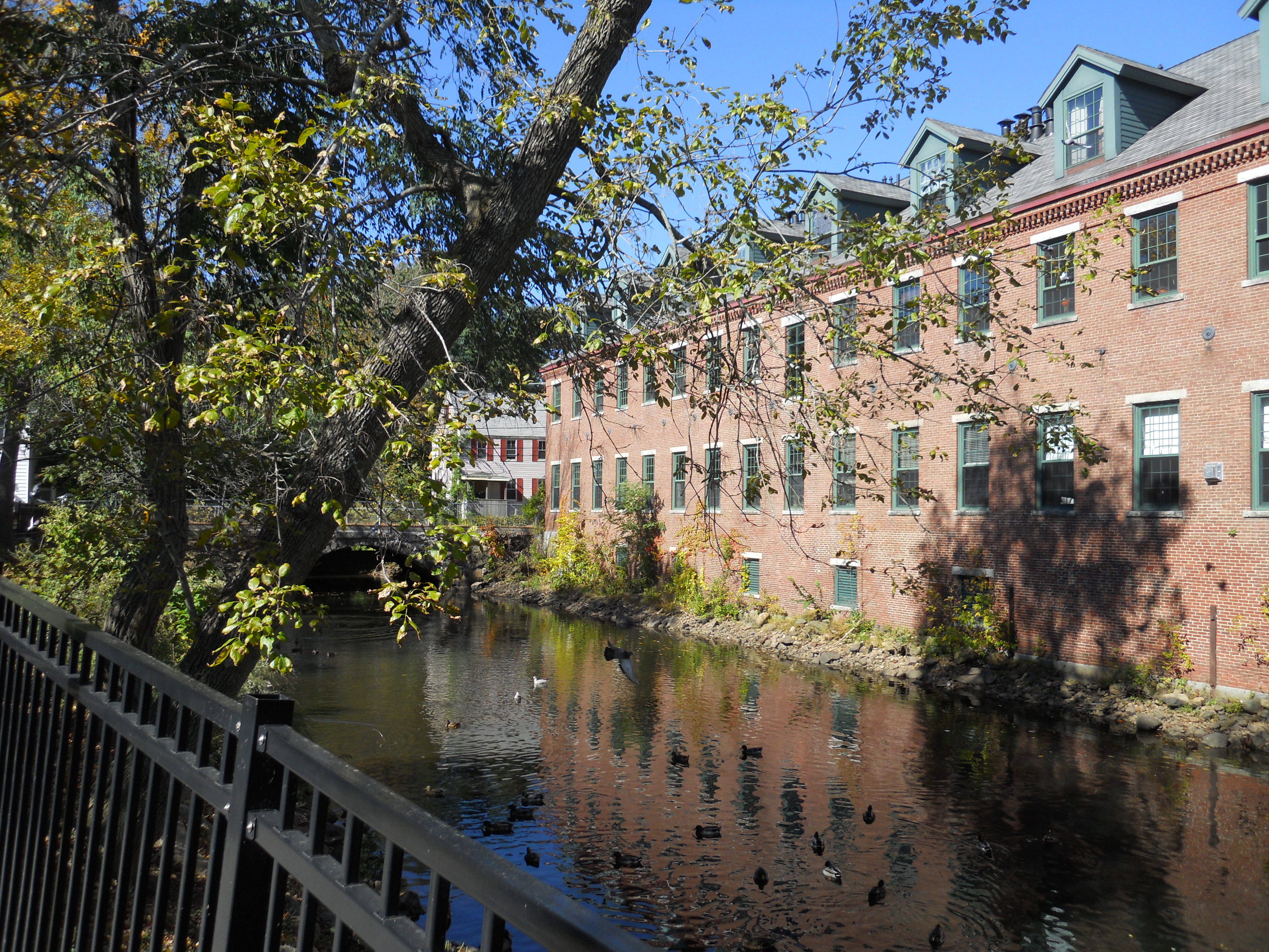 The Pow-pow as it drops through the old mill district of Amesbury